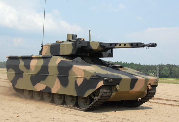 Lynx Tracked Armoured Vehicle